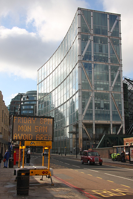 Shoreditch High Street - Looking Towards Norton Folgate The new 201 Bishopsgate office building looms large on the corner of Norton Folgate and Worship Street. In the foreground we are warned to avoid the area over the coming weekend. Are the city slickers having a drunken rave? Nothing so exciting - just routine roadworks.